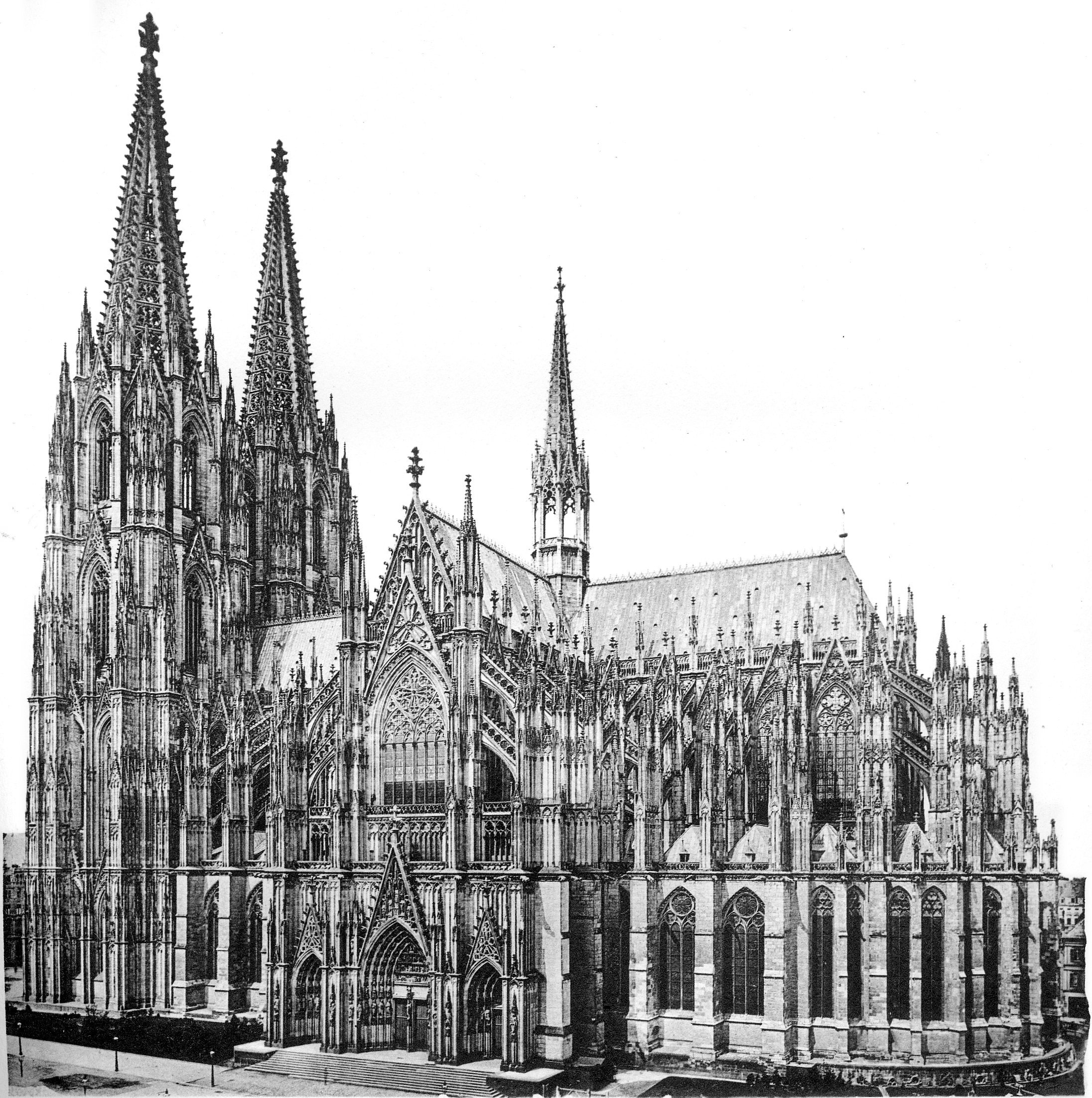 This is a scan of the historical document